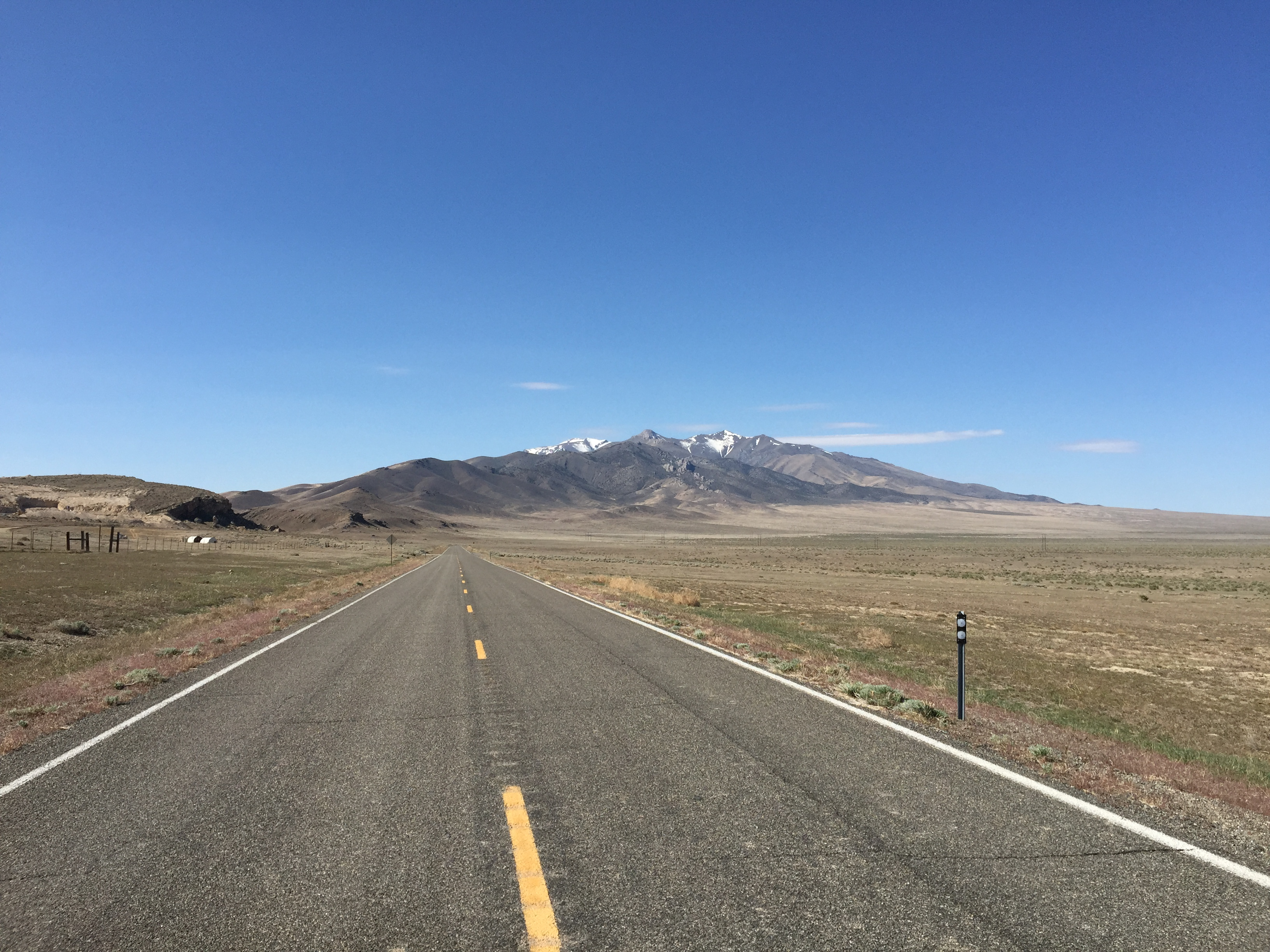 View south towards the Humboldt Range from near the north end of Nevada State Route 400 in Mill City, Nevada